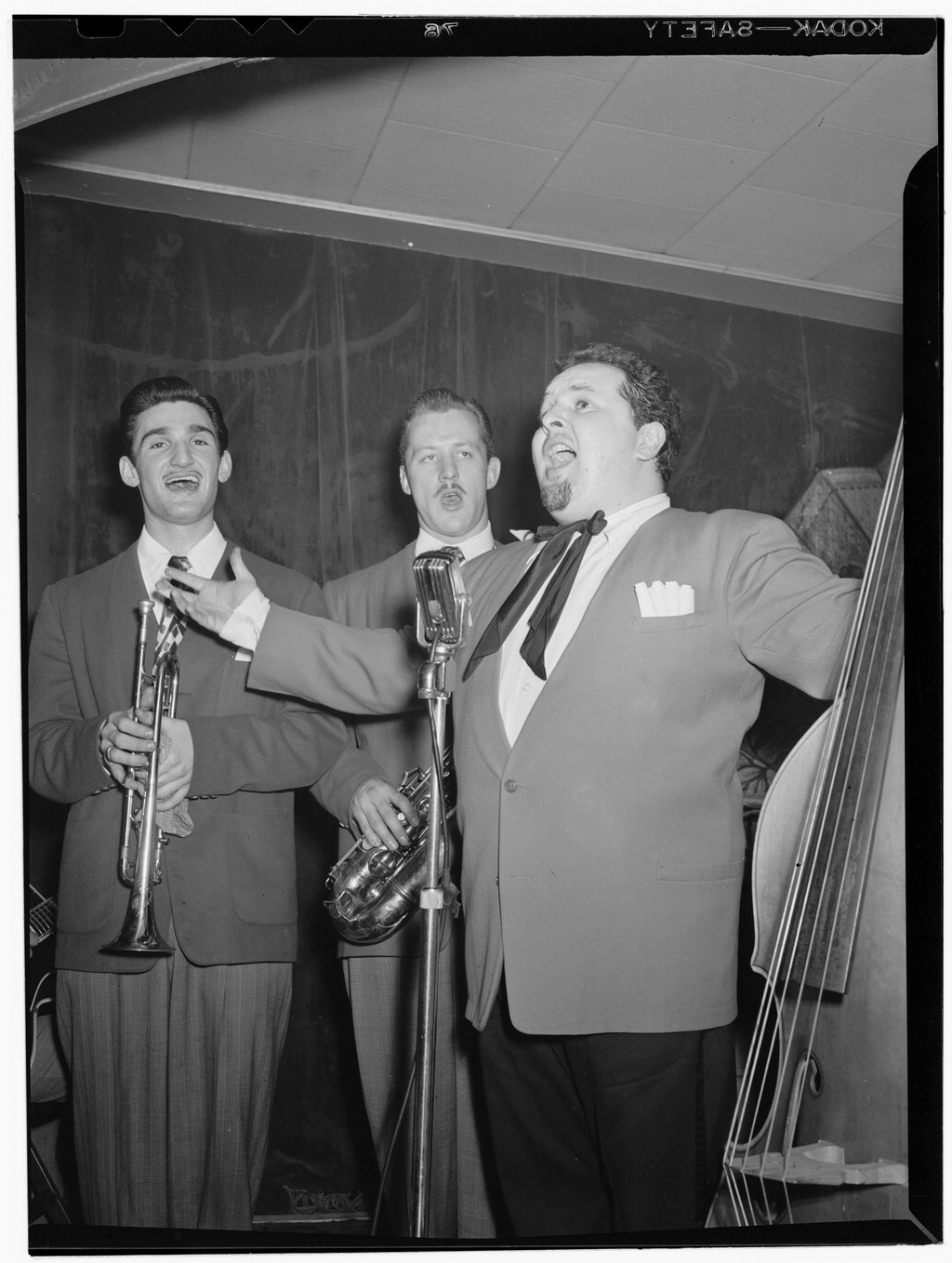 Gottlieb, William P., 1917-, photographer. [Portrait of Chubby Jackson, Conte Candoli, and Emmett Carls, Esquire Club, Valley Stream, Long Island, N.Y., ca. Apr. 1947] 1 negative : b&w ; 3 1/4 x 4 1/4 in. Notes: Gottlieb Collection Assignment No. 149 Reference print available in Music Division, Library of Congress. Purchase William P. Gottlieb Forms part of: William P. Gottlieb Collection (Library of Congress). In: "Chubby plays 5th dimensional jazz," Down Beat, v. 14, no. 9 (Apr. 23, 1947), p. 14. Subjects: Jackson, Chubby Candoli, Conte, 1927- Carls, Emmett Jazz musicians--1940-1950. Double bassists--1940-1950. Trumpet players--1940-1950. Saxophonists--1940-1950. Esquire Club Format: Portrait photographs--1940-1950. Cityscape photographs--1940-1950. Film negatives--1940-1950. Rights Info: Mr. Gottlieb has dedicated these works to the public domain, but rights of privacy and publicity may apply. Repository: (negative) Library of Congress, Prints & Photographs Division, Washington D.C. 20540 USA, (reference print) Library of Congress, Music Division, Washington D.C. 20540 USA, Part Of: William P. Gottlieb Collection (DLC) 99-401005 General information about the Gottlieb Collection is available at Persistent URL: Call Number: LC-GLB13- 0444 This work is from the William P. Gottlieb collection at the Library of Congress. Rights and restrictions. In accordance with the wishes of William Gottlieb, the photographs in this collection entered into the public domain on February 16, 2010.